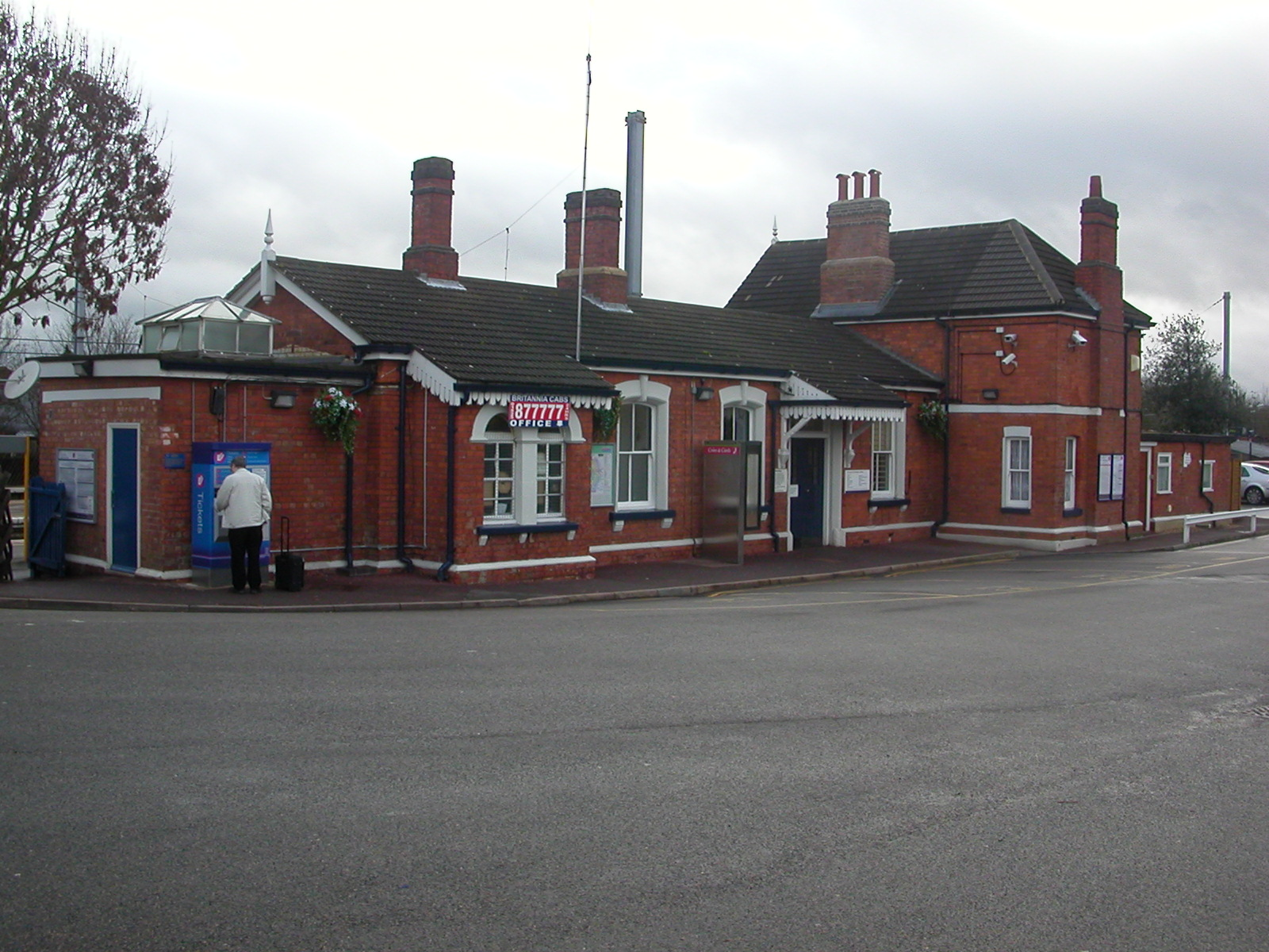 Harlington (Beds) - main station building (approach road side). Photographed on 13th January 2007.